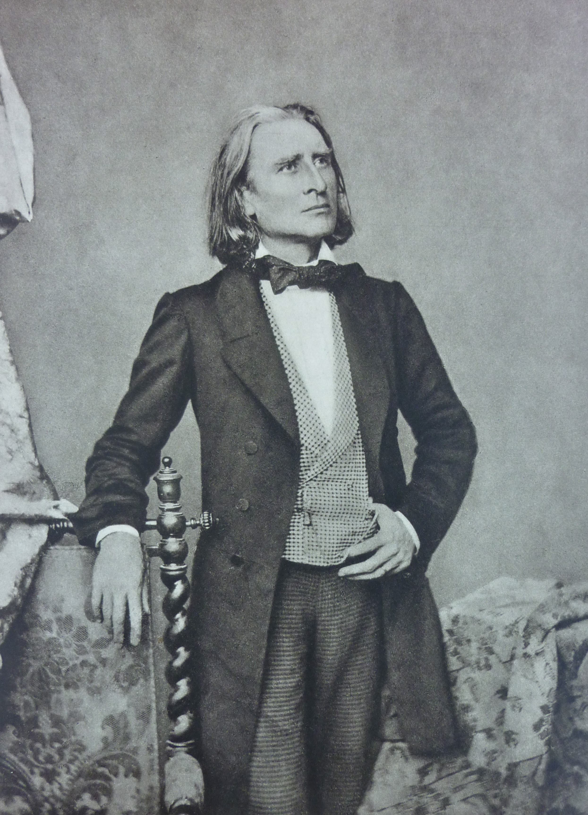 Portrait of Franz Liszt (1811-1886)